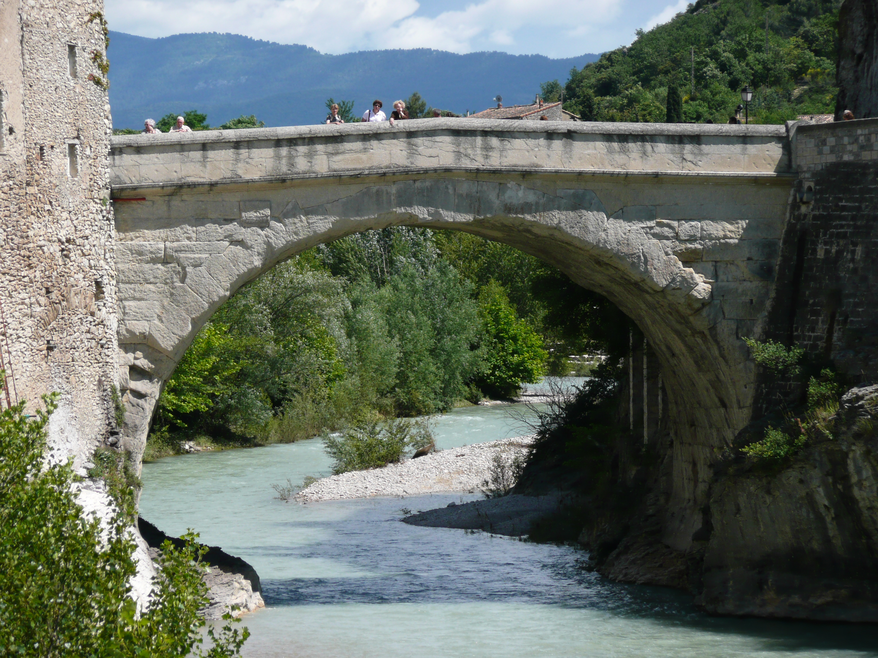 The Roman Bridge at Vaison-la-Romaine, Vaucluse department, Provence, France